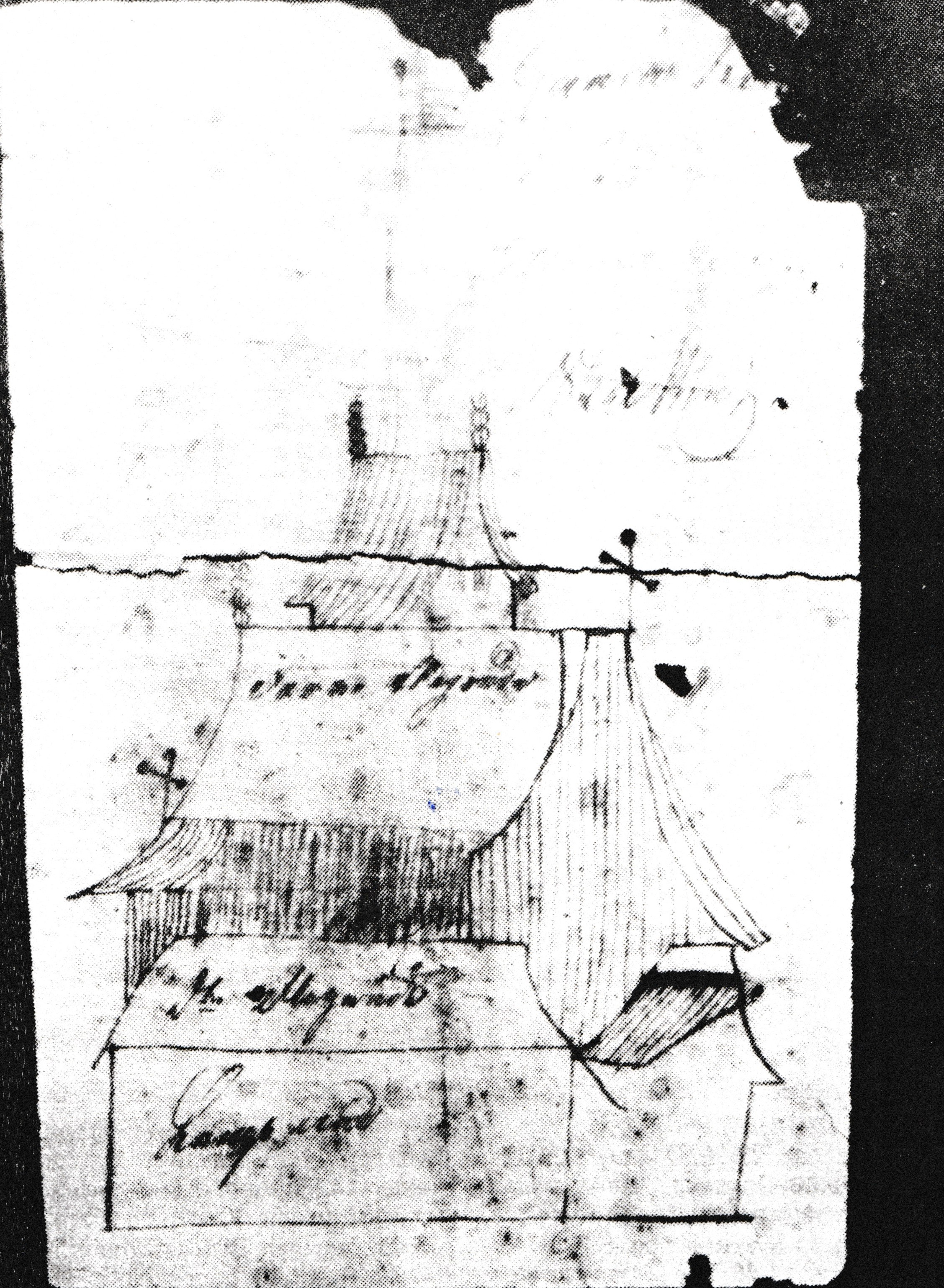 Drawing of Gåra stave church found in an old Cabinet in Snertingdal.